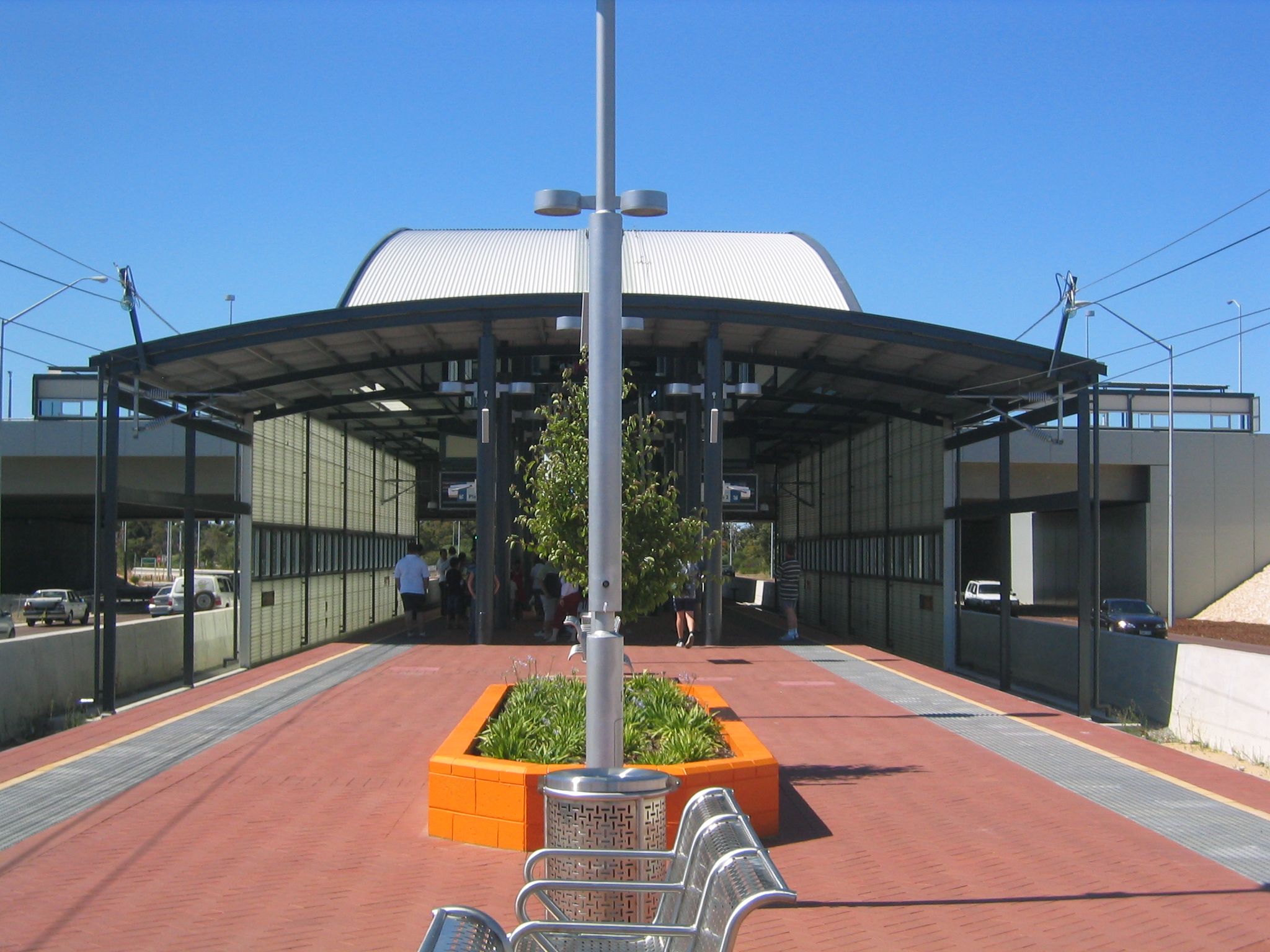 The platform level of Murdoch Station.